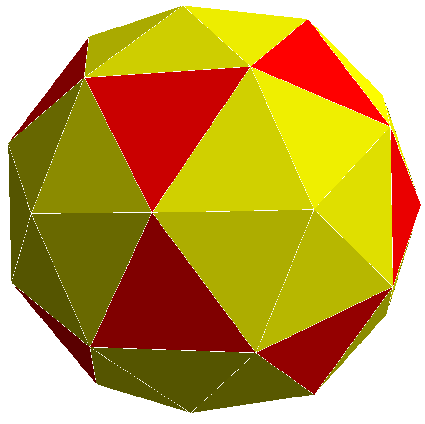 Pentakis_icosidodecahedron